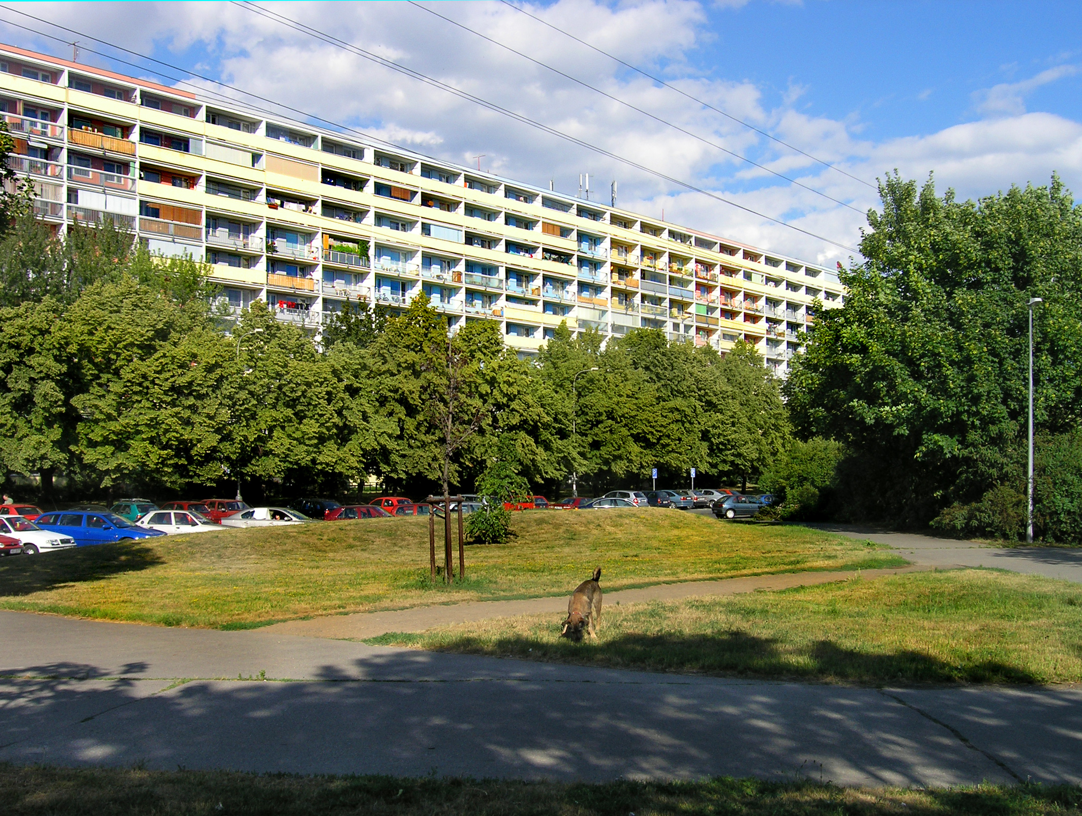 Prosek housing estate at Střížkov, Prague